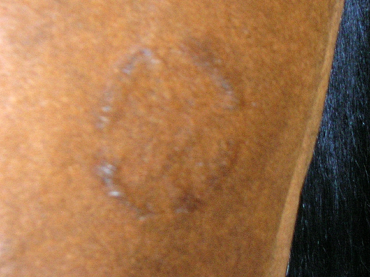 The hip brand on a bay Belgian Warmblood.